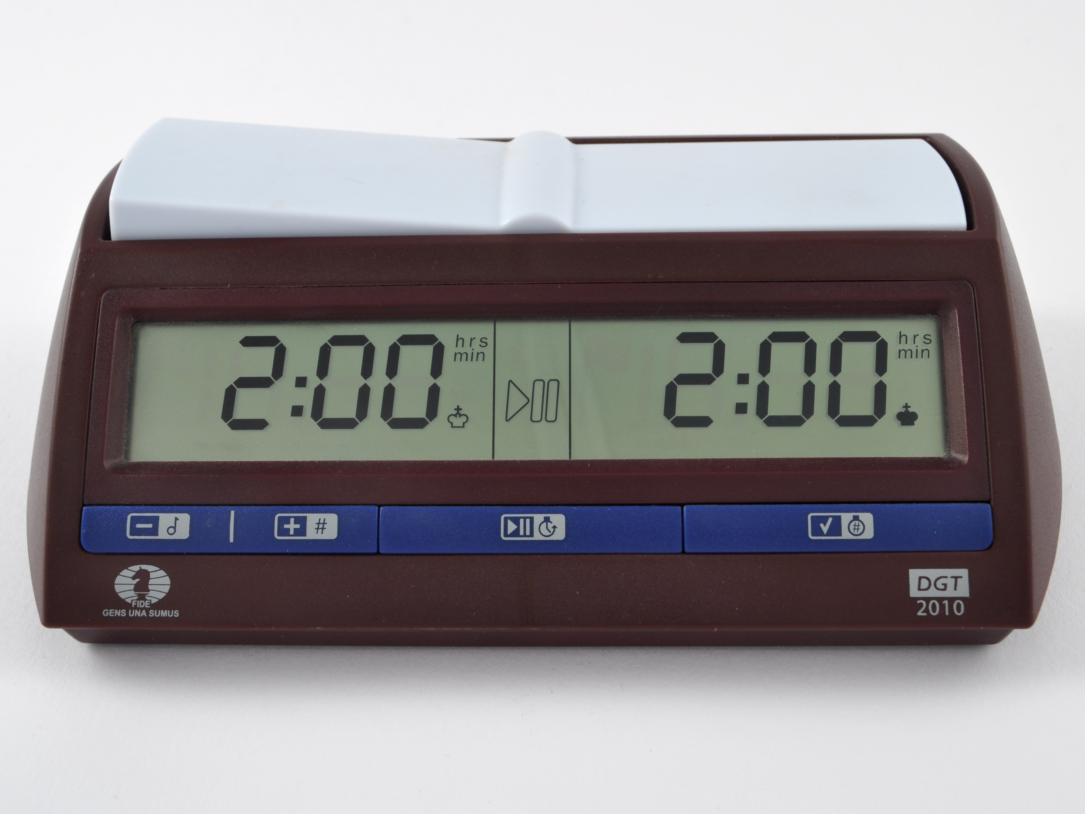 DGT 2010 game timer.